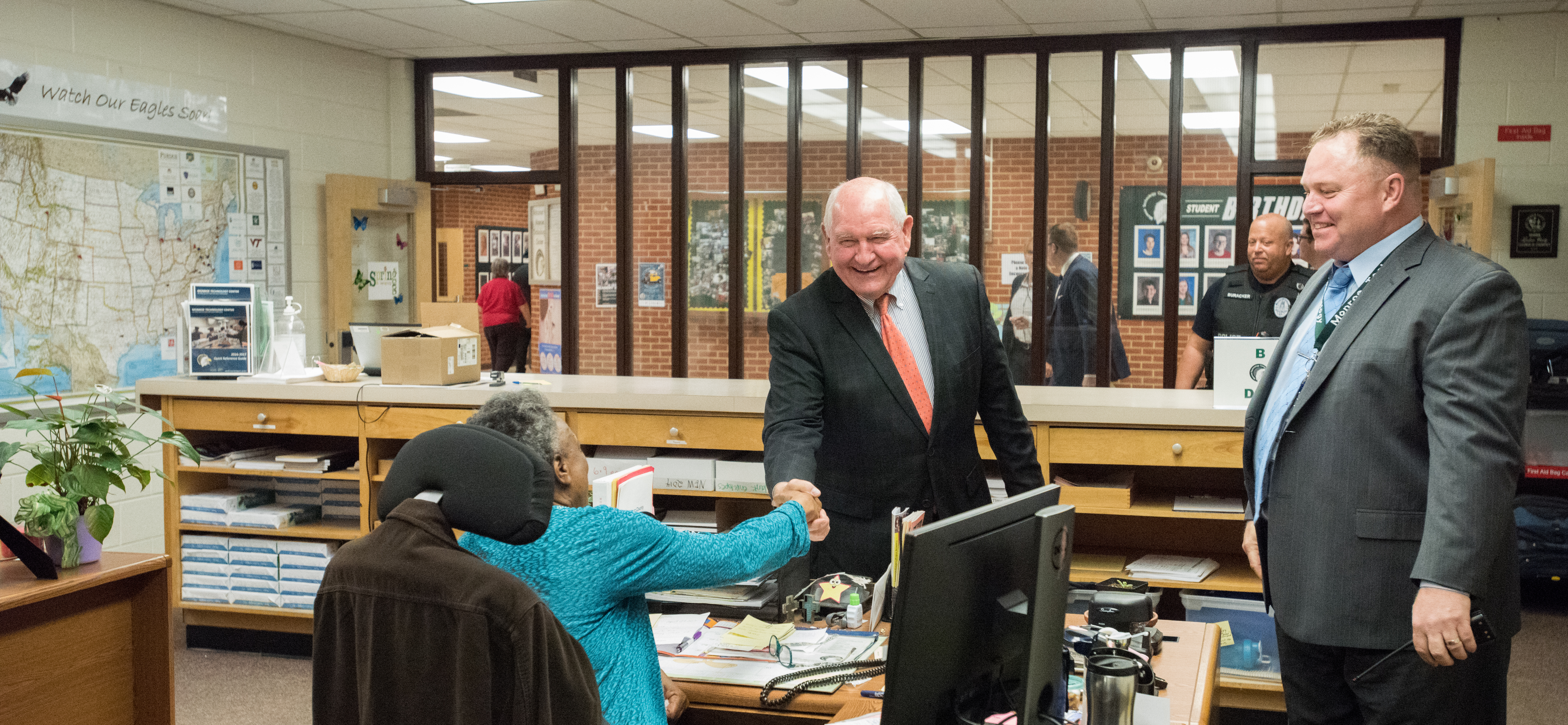 U.S. Secretary of Agriculture Sonny Perdue will speak with six FFA chapters from across the country from C.S. Monroe Technical High School via YouTube Live, in Leesburg, VA, on May 1, 2017. Please and FFA is an intracurricular student organization for those interested in agriculture and leadership. For more information, please The Rural Youth Development (RYD) program, funded by the USDA/NIFA, helps students develop leadership skills. The USDA National Institute of Food and Agriculture (NIFA) provides leadership and funding for programs that advance agriculture-related sciences. USDA invests in and supports initiatives that ensure the long-term viability of agriculture. NIFA applies an integrated approach to ensure that groundbreaking discoveries in agriculture-related sciences and technologies reach the people who can put them into practice. USDA Photo by Lance Cheung.